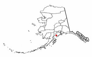 Adapted from Wikipedia's AK borough maps by Seth Ilys.